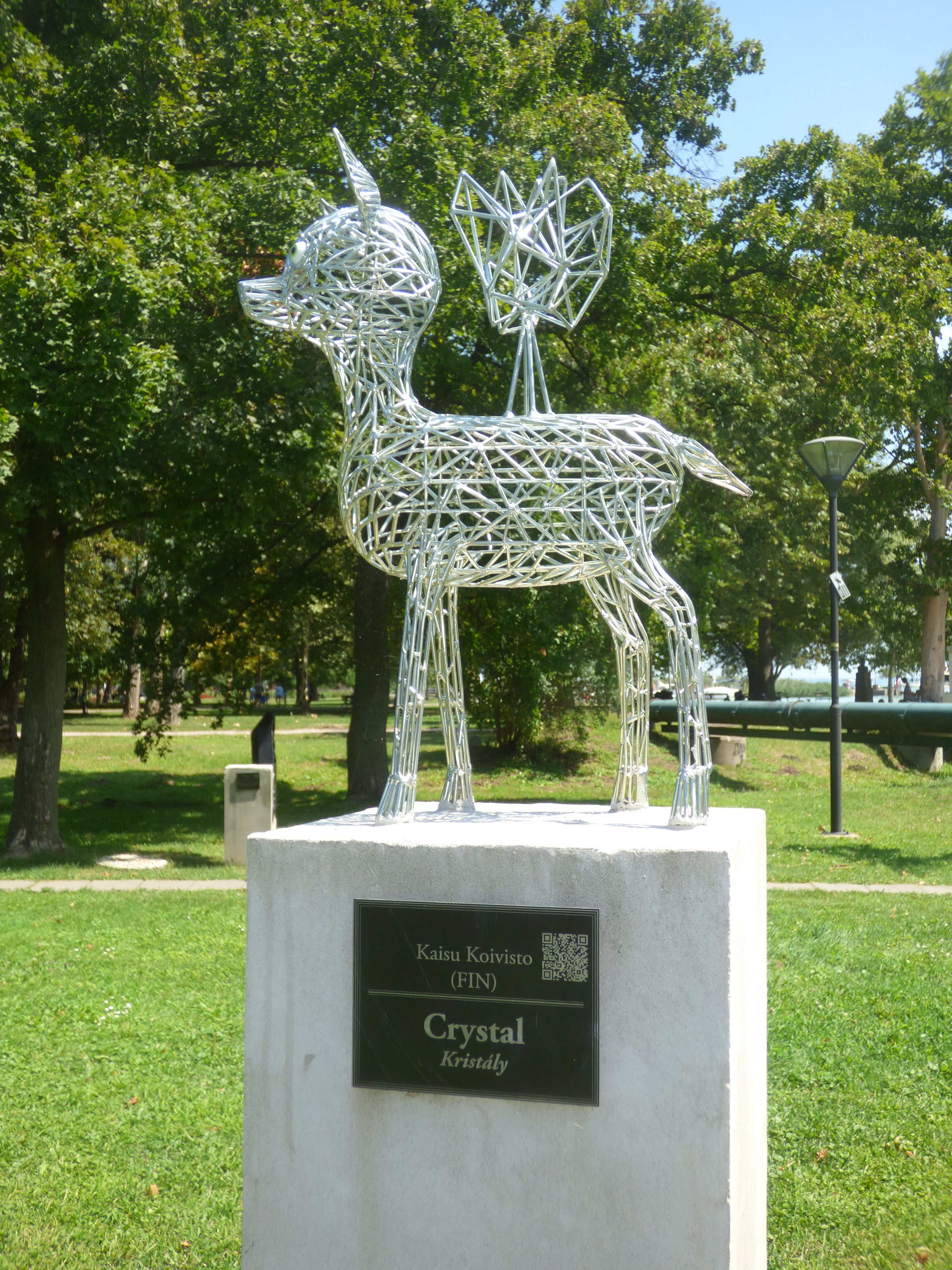 Kaisu Koivisto Crystal című szobra a balatonalmádi szoborparkban